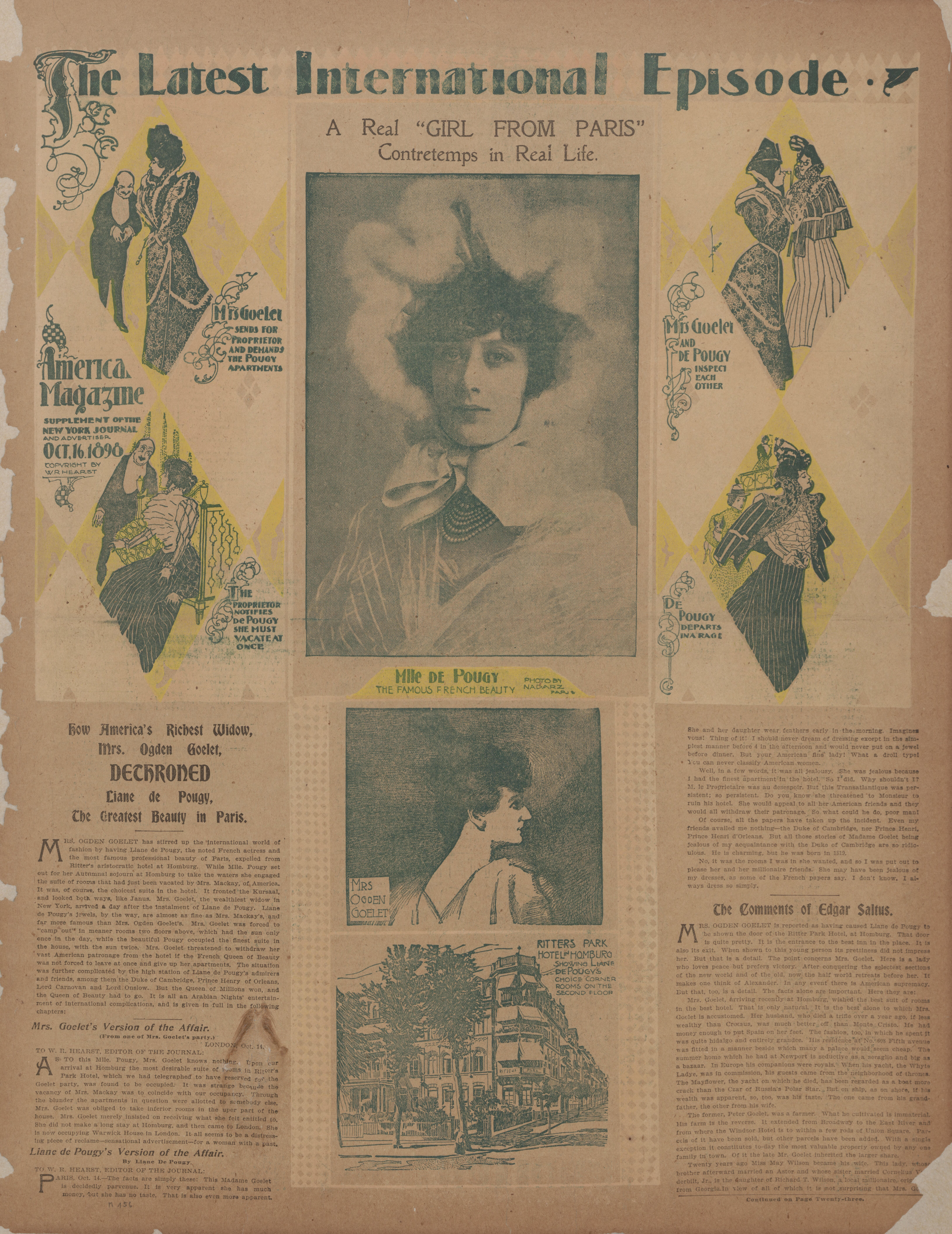 Page from the New York Journal and Advertiser, Sunday, October 16, 1898